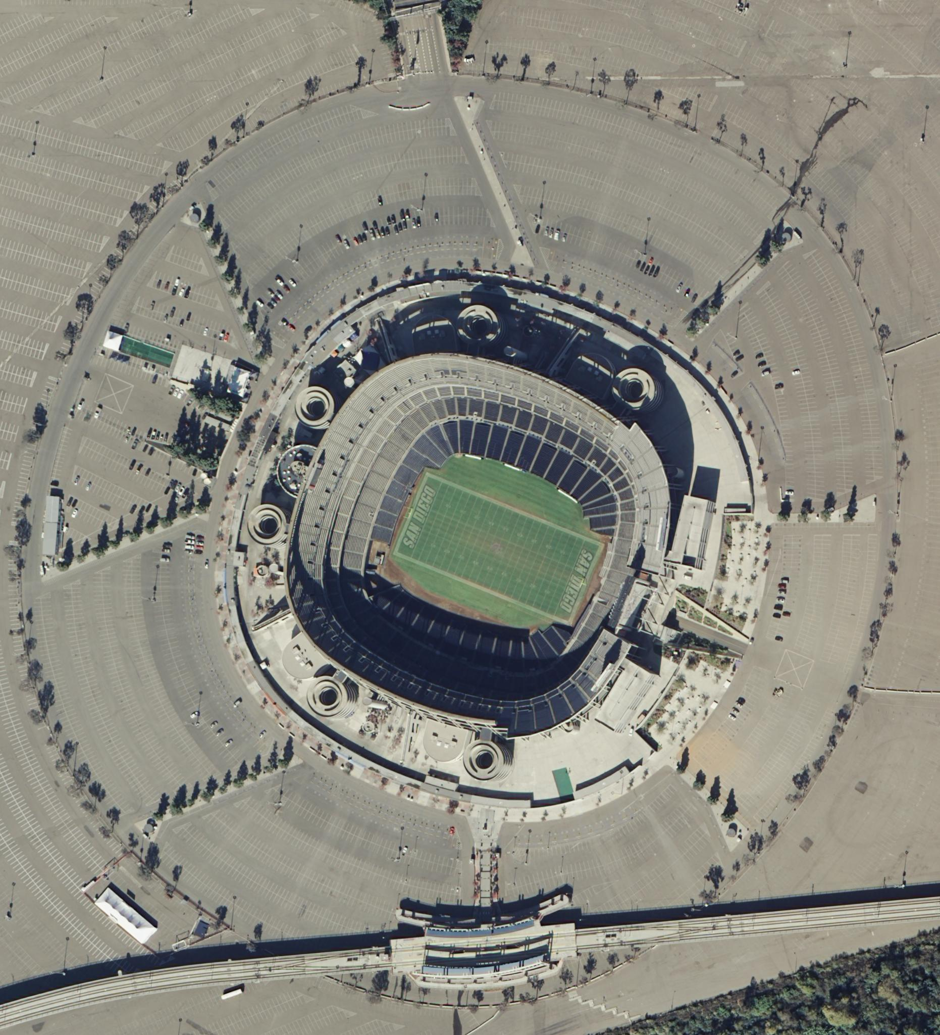 Qualcomm Stadium in San Diego, CA in November 2003 with football field setup.